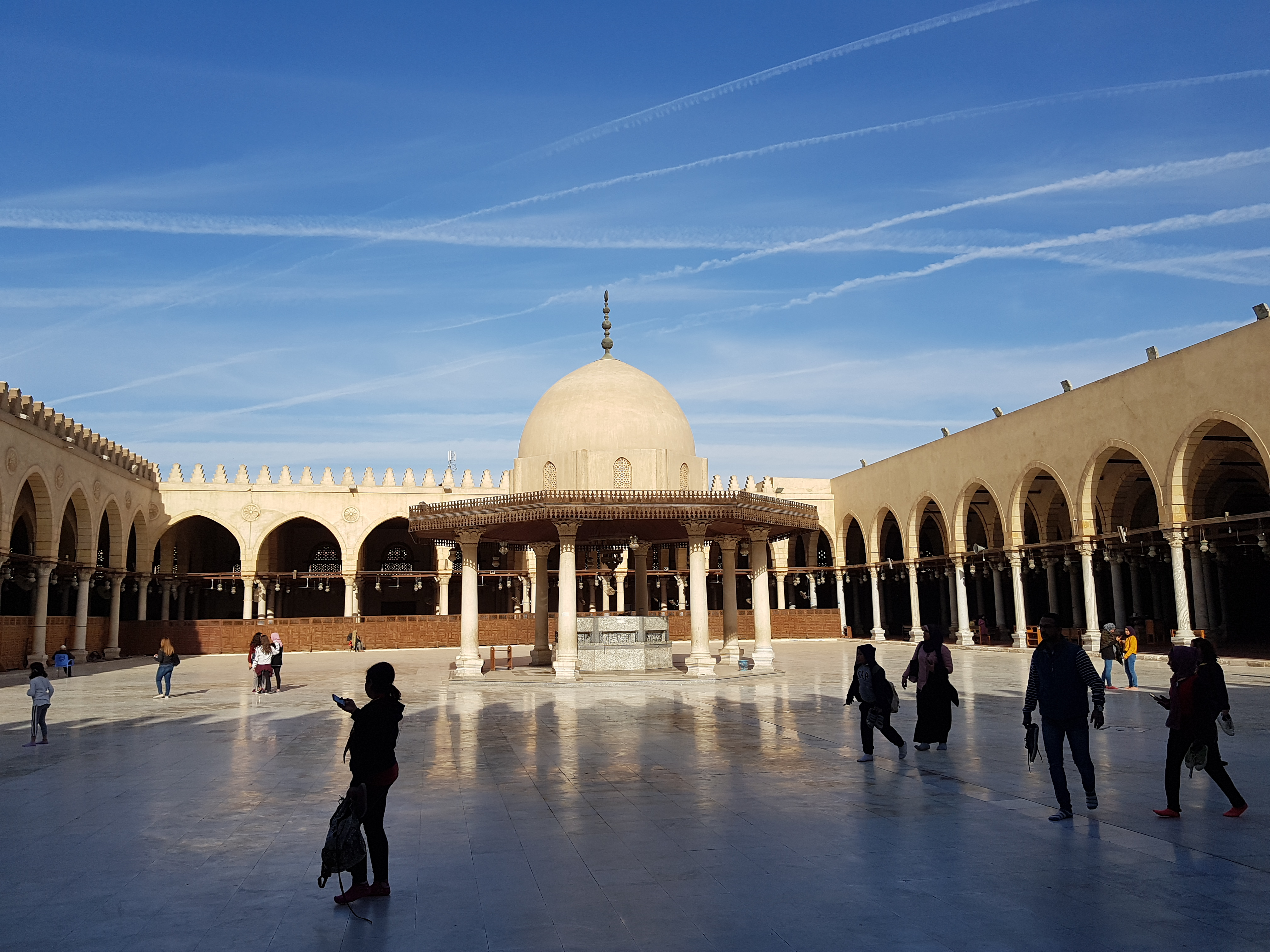 This is an image with the theme "Play" from: Egypt